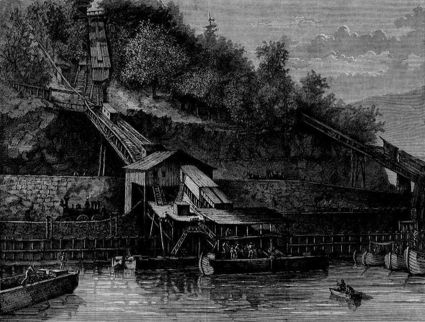 Down Among the Coal Mines -- Chutes Loading the Canal-Boats on the Lehigh Canal, a wood engraving published in Harper's Weekly, February 1873. Anthracite Coal was loaded at the foot of Mount Pisgah from above historic Mauch Chunk (present-day Jim Thorpe, Pennsylvania). At the top of the image the visible railway 'Wye' is the cross-over between the gravity railroad down track and the cable railroad and inclined plane up railway of the Summit Hill and Mauch Chunk Railroad (aka: 'Mauch Chunk Switchback Railway'; the second operating railway in the country. The railway is considered the first roller coaster in the world and did a tourist trade as early as 1827; and ended it's life serving such tourists between the 1870s and 1931. See also: category: Mauch Chunk Switchback Railway